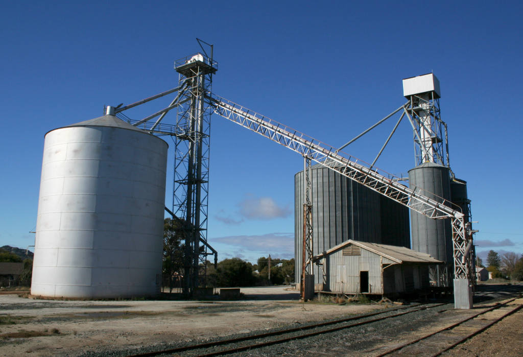 Pyramid station. Swan Hill line. Victoria, Australia